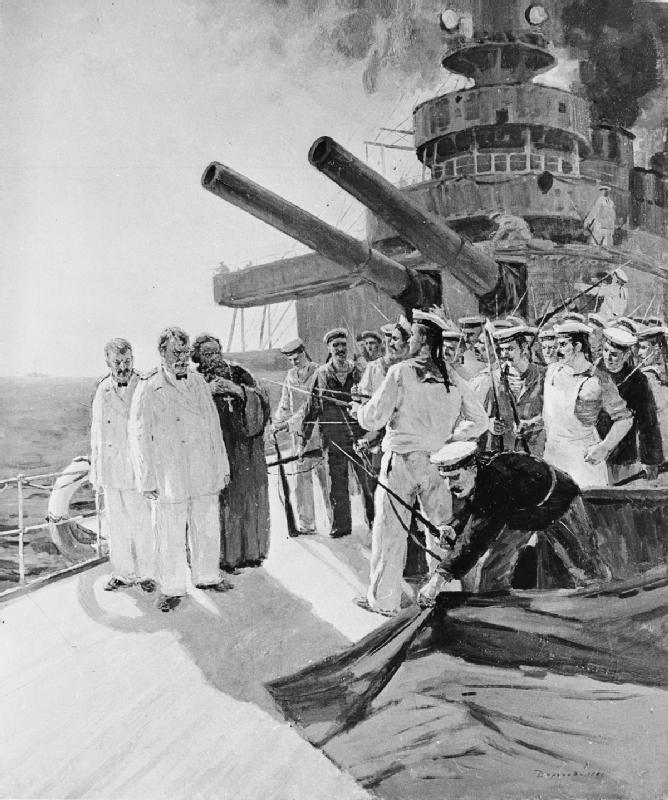 The Russian Revolution, 1905 Artistic impression of the mutiny by the crew of the POTEMKIN, a pre-dreadnought battleship of the Russian Black Sea Fleet, against the ship's officers on 14 June 1905.